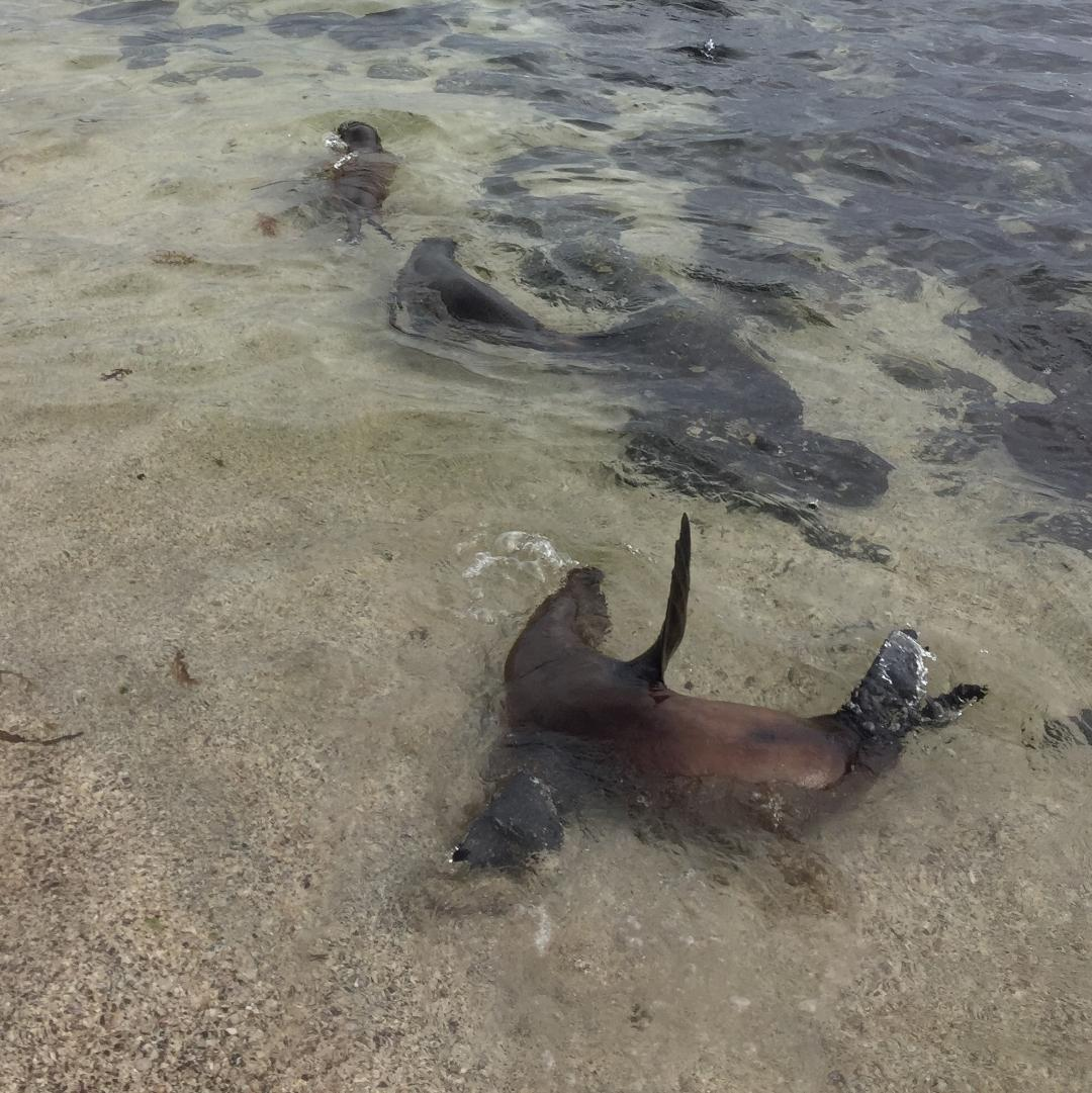 Galapagos Sea Lion displaying behaviors of "jug handle" to reduce heat loss.